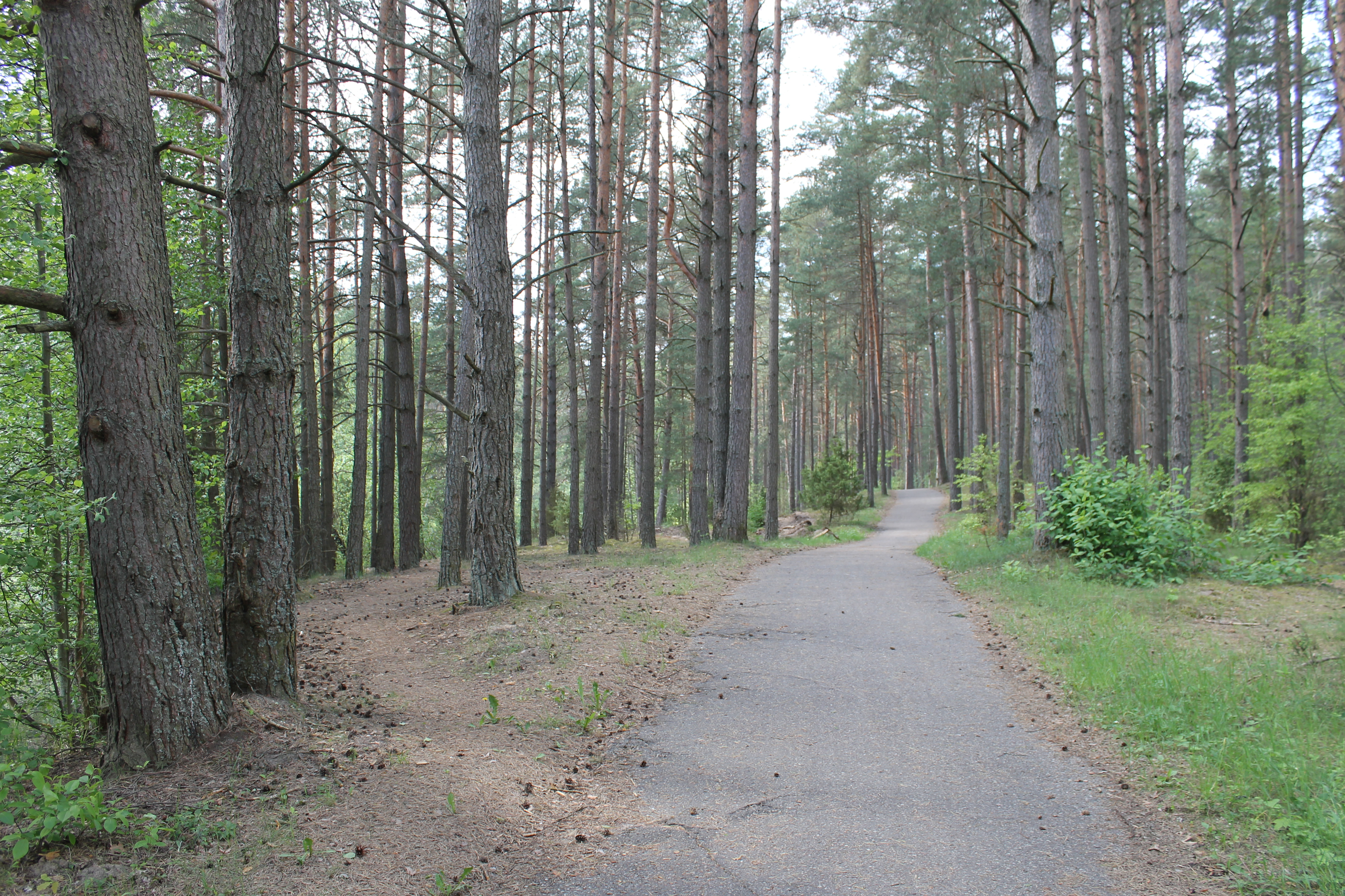 Druskininkai old settlement, Druskininkai Municipality, Lithuania